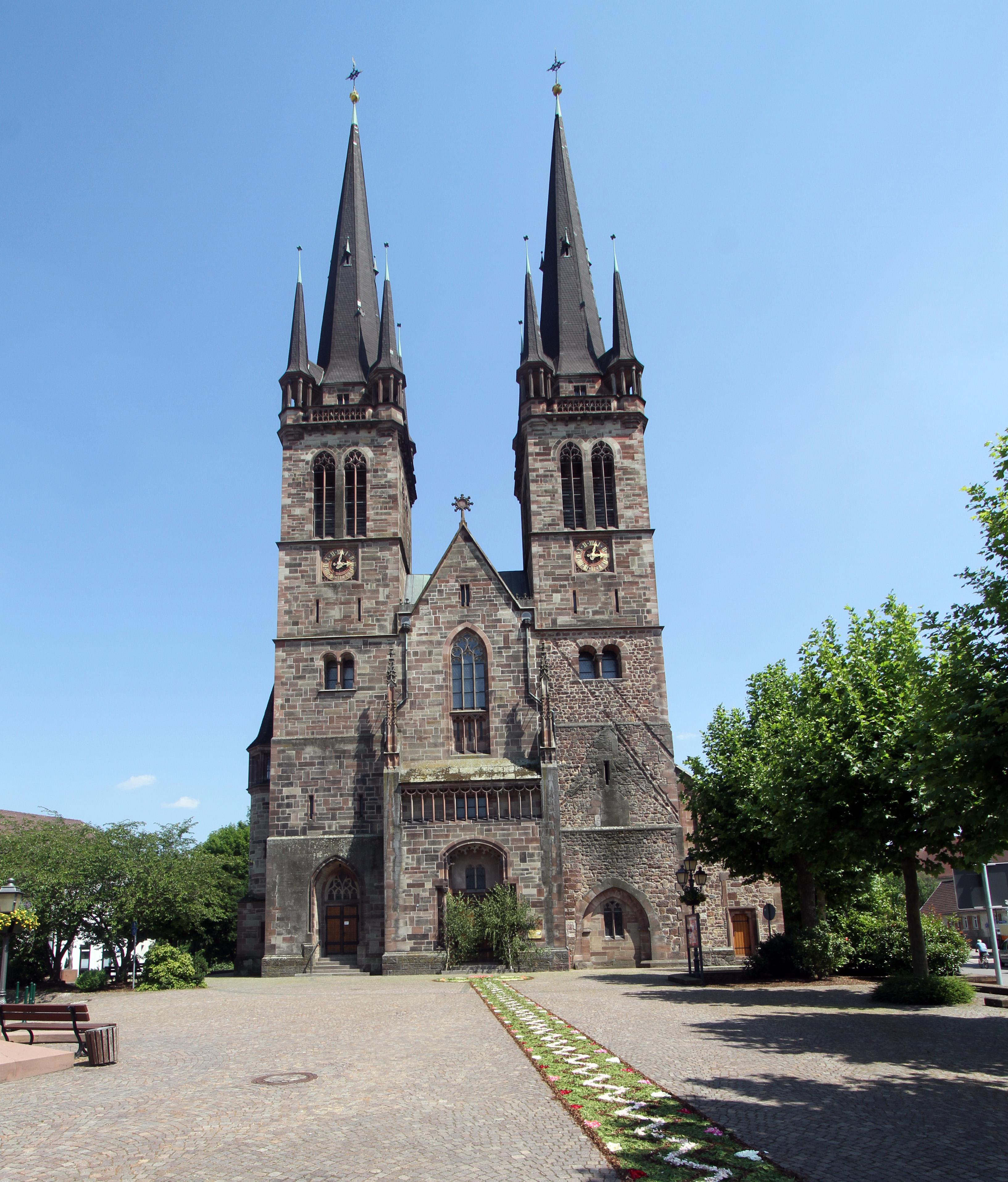 Church of St. Johannes in Ottersweier.